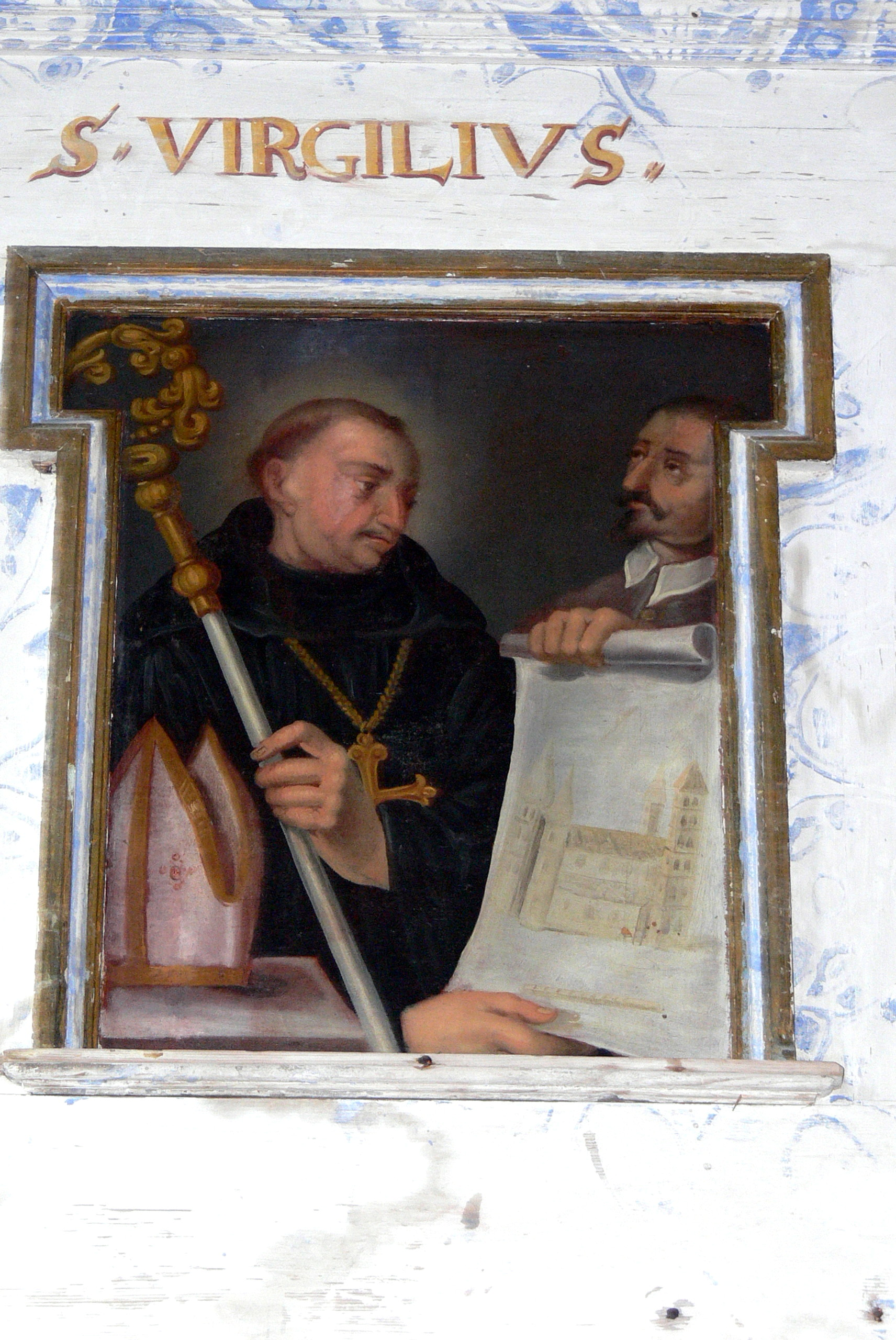 Saint Adolari church (Tyrol). Church gallery (1688) - Saint Virgilius of Salzburg with a drawing of Salzburg cathedral.